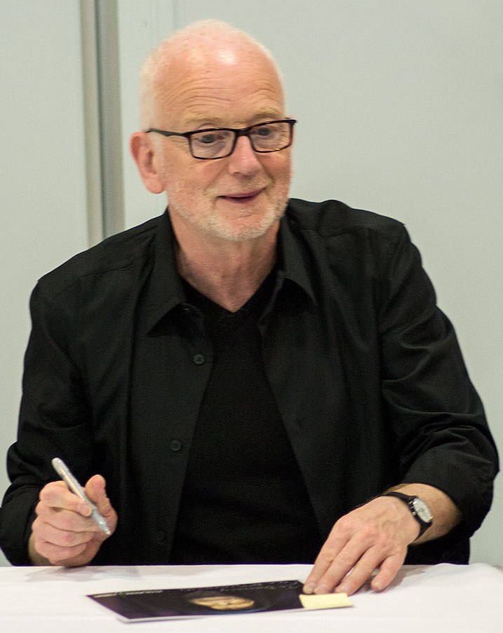 Scottish actor Ian McDiarmid at the Star Wars Celebration Europe, July 2013, Essen, Germany